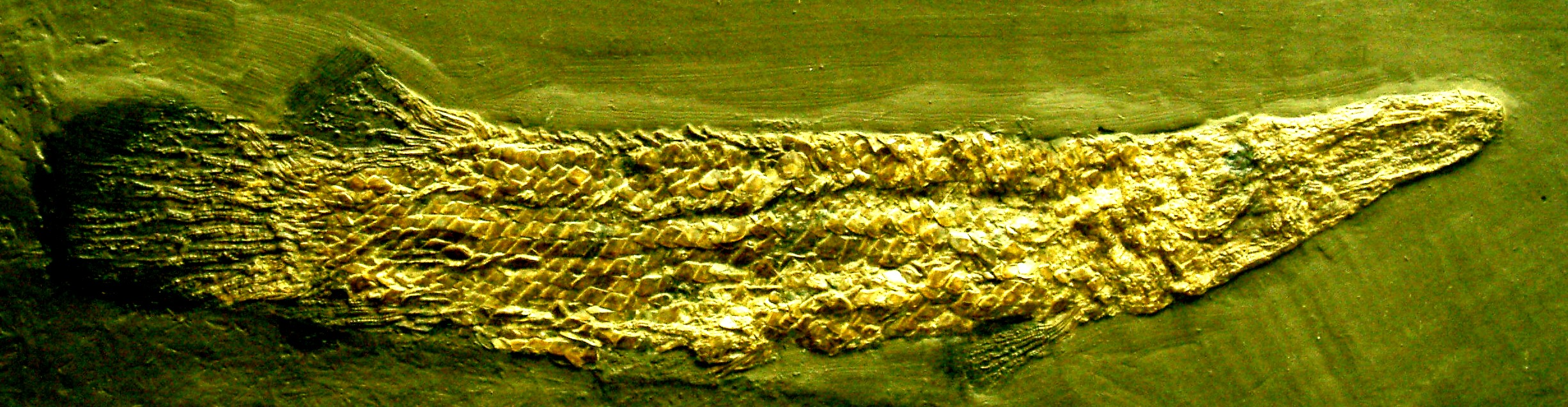 Fossil specimen of an Atractosteus species extinct gar